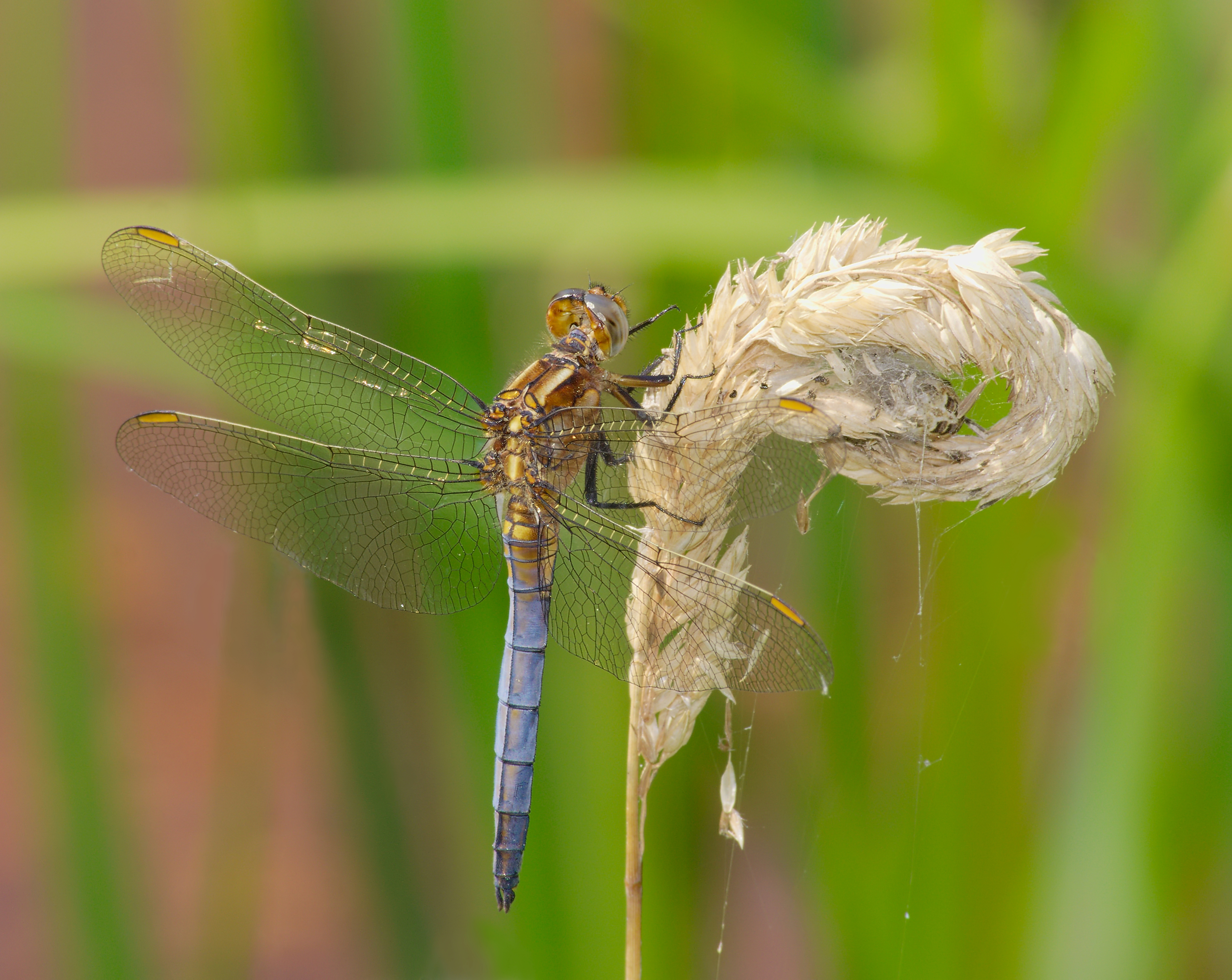 Keeled skimmer - Orthetrum coerulescens, male. Taken by the Schwarzbach in Wöllnau, Doberschütz, Saxony, Germany.